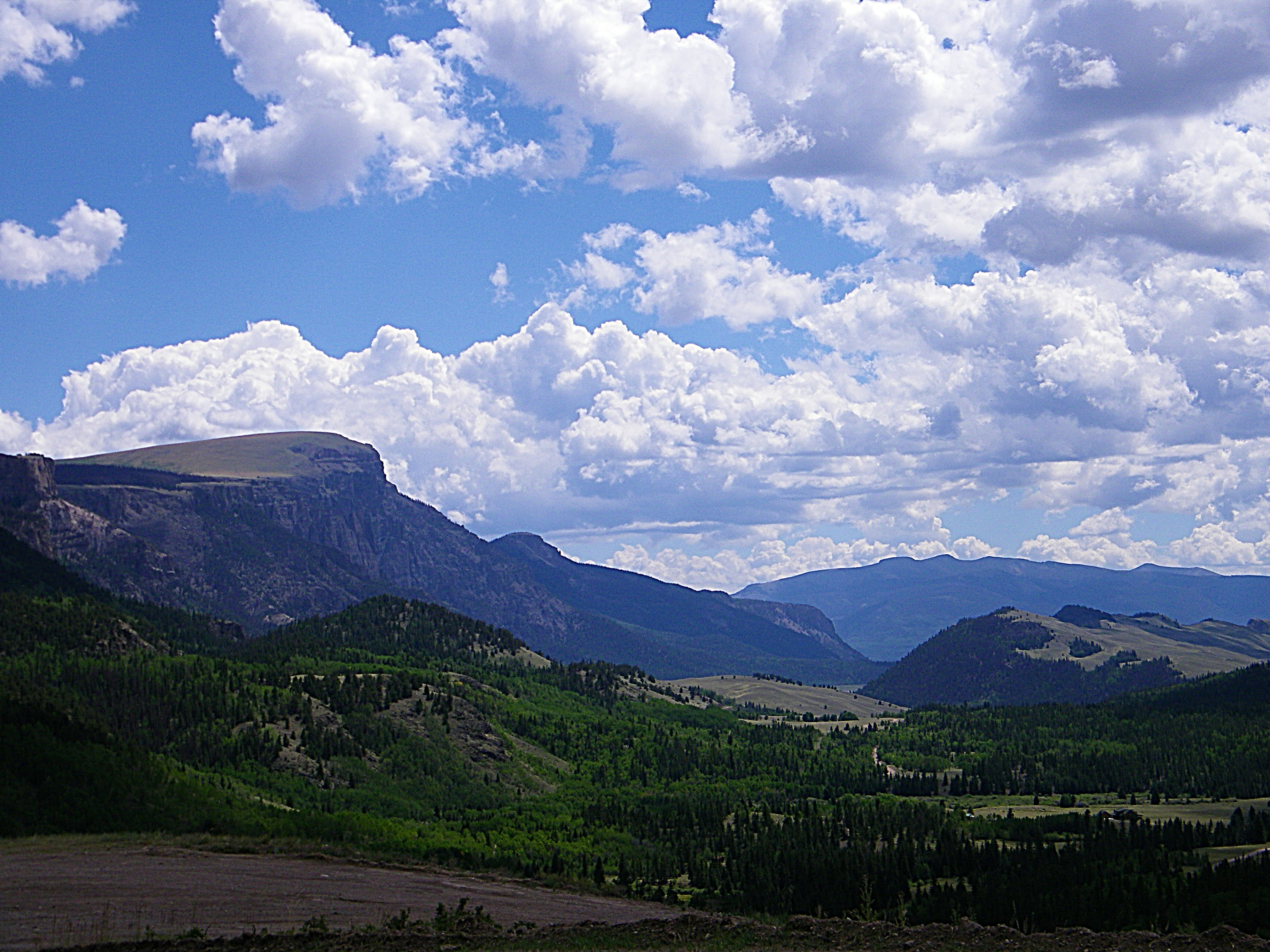 Bristol Head from the West